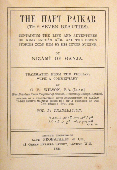 Nizami of Ganja; Wilson, C. E. The Haft Paikar (The Seven Beauties): Containing the Life and Adventures of King Bahram Gur, and the Seven Stories Told Him by His Seven Queens [Probsthain's Oriental Series, Vol. XII-XIII]. London: Arthur Probsthain & Co., 1924. First English edition. Title list